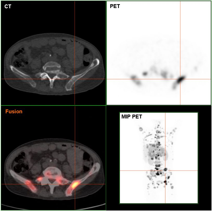 Ga-68-Dotatoc PET/CT exam of a neuroendocrinal tumor; in the CT alone there is no indicator for any lesion